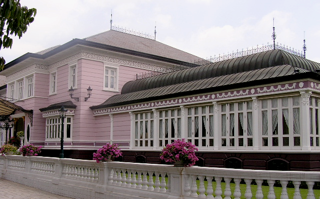 Uthayan Phumisathian Residential Hall within Bang Pa-In Palace, Ayutthaya, Thailand